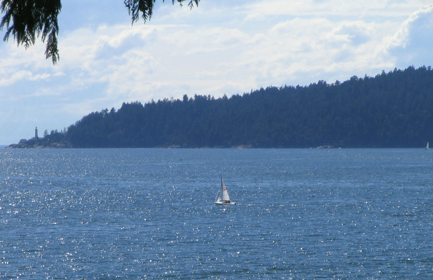 This image was created by me, Flying Penguin of Pacific Spirit Photography ( of Burnaby, British Columbia, Canada.